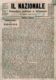 first page of newspaper Il Nazionale 23 march 1848